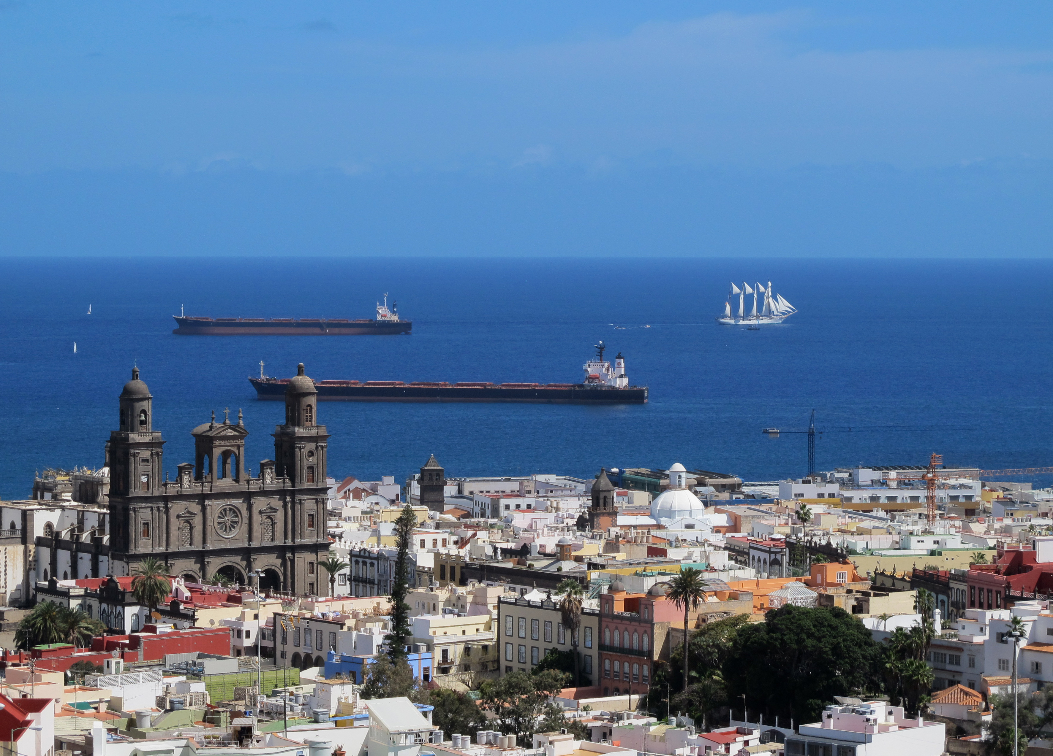 Spanish ship Juan Sebastián Elcano leaving for its destination of San Juan, Puerto Rico (10 March, 2013).